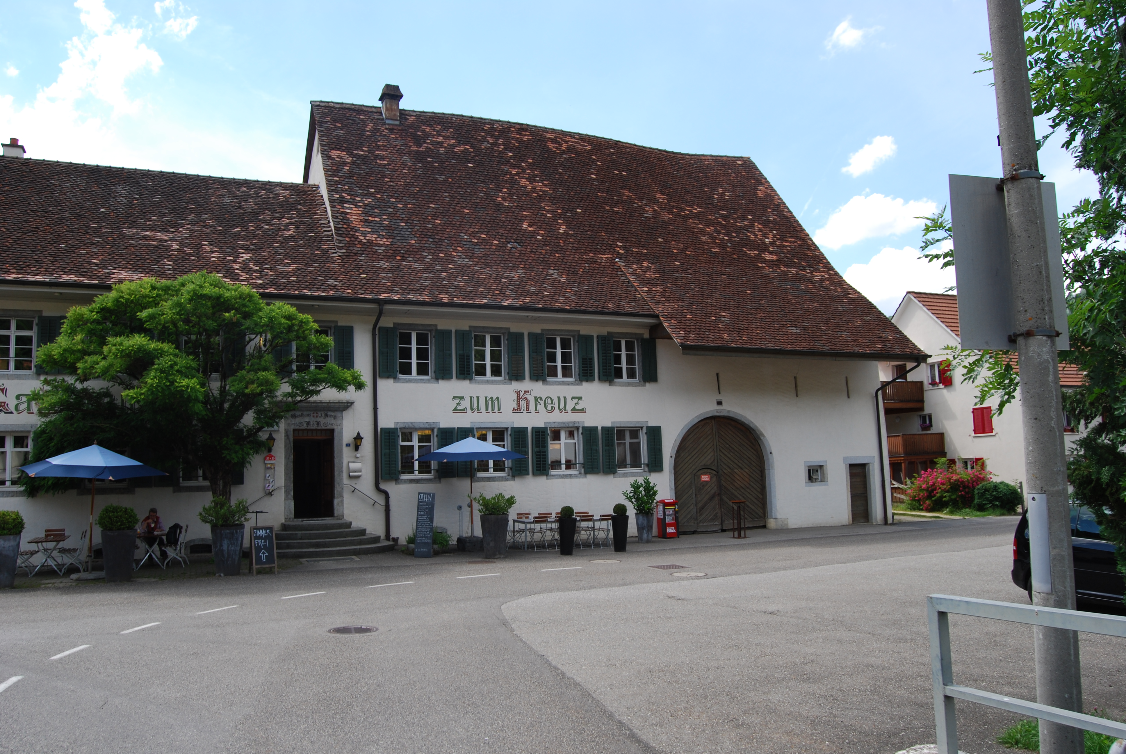 Restaurant zum Kreuz at Erschwil, canton of Solothurn, Switzerland